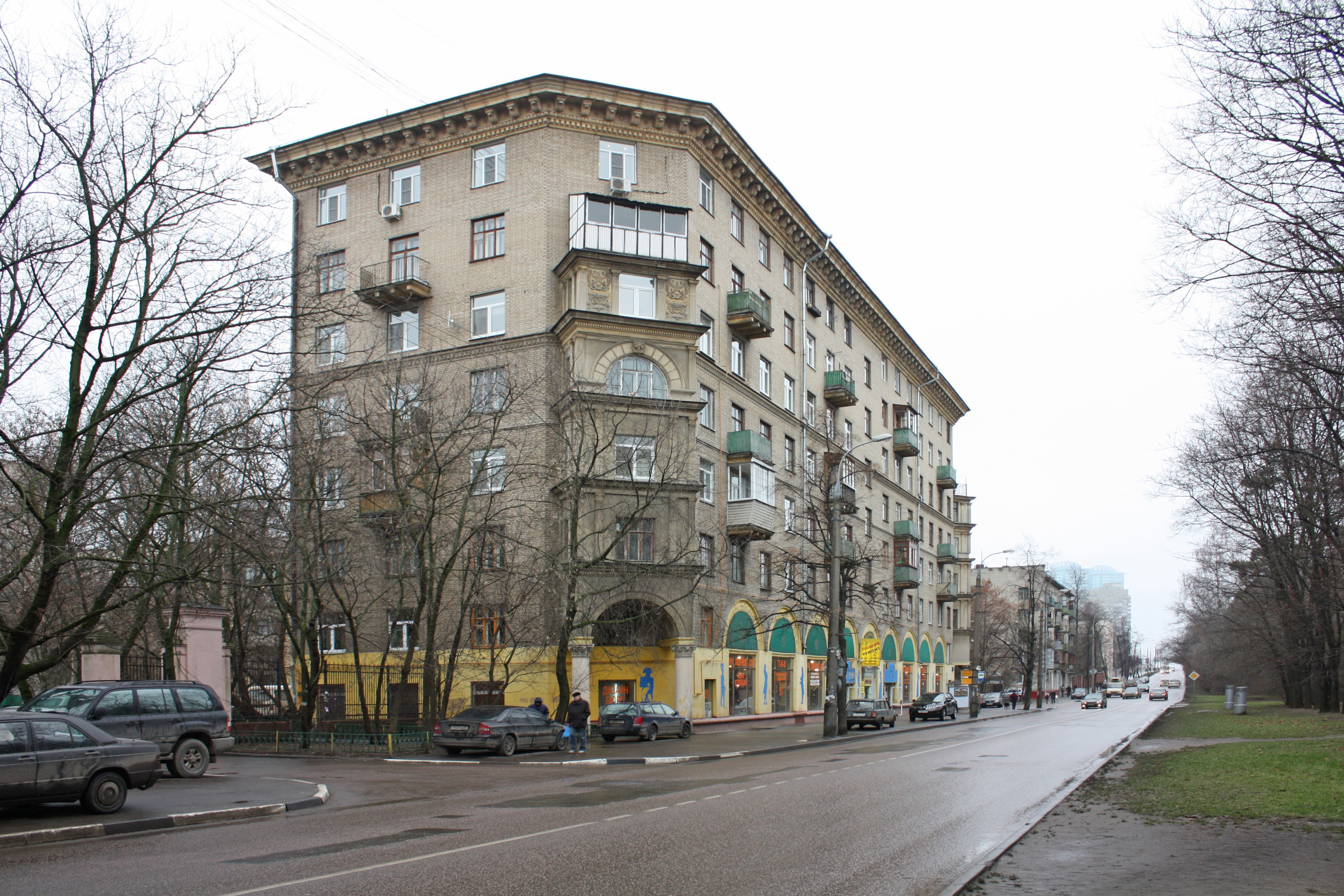 Moscow, Marshal Vasilevsky street. In the foreground - house 5 (or house 5 building 1)